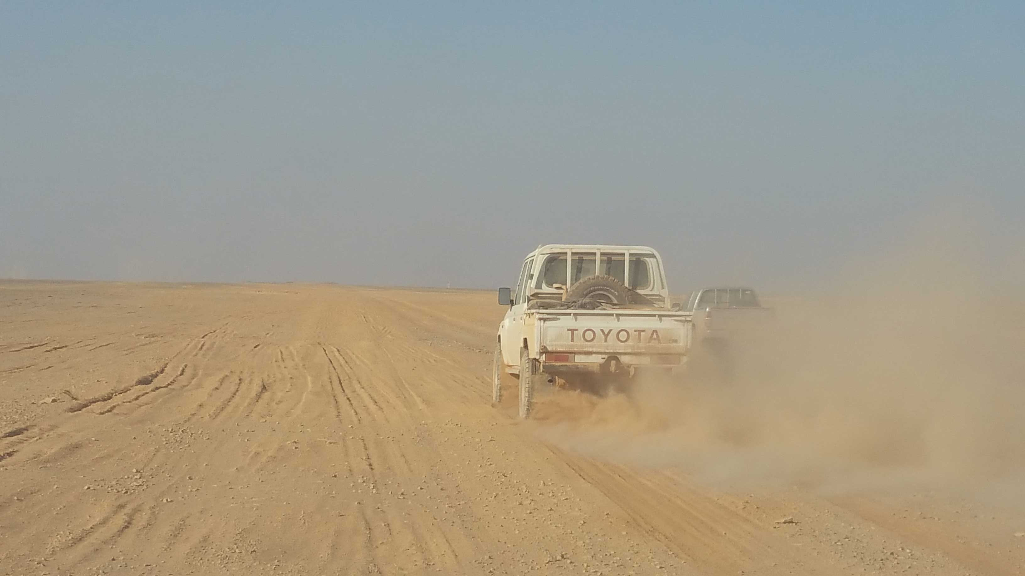 Marines operating [Technicals] in the AOR